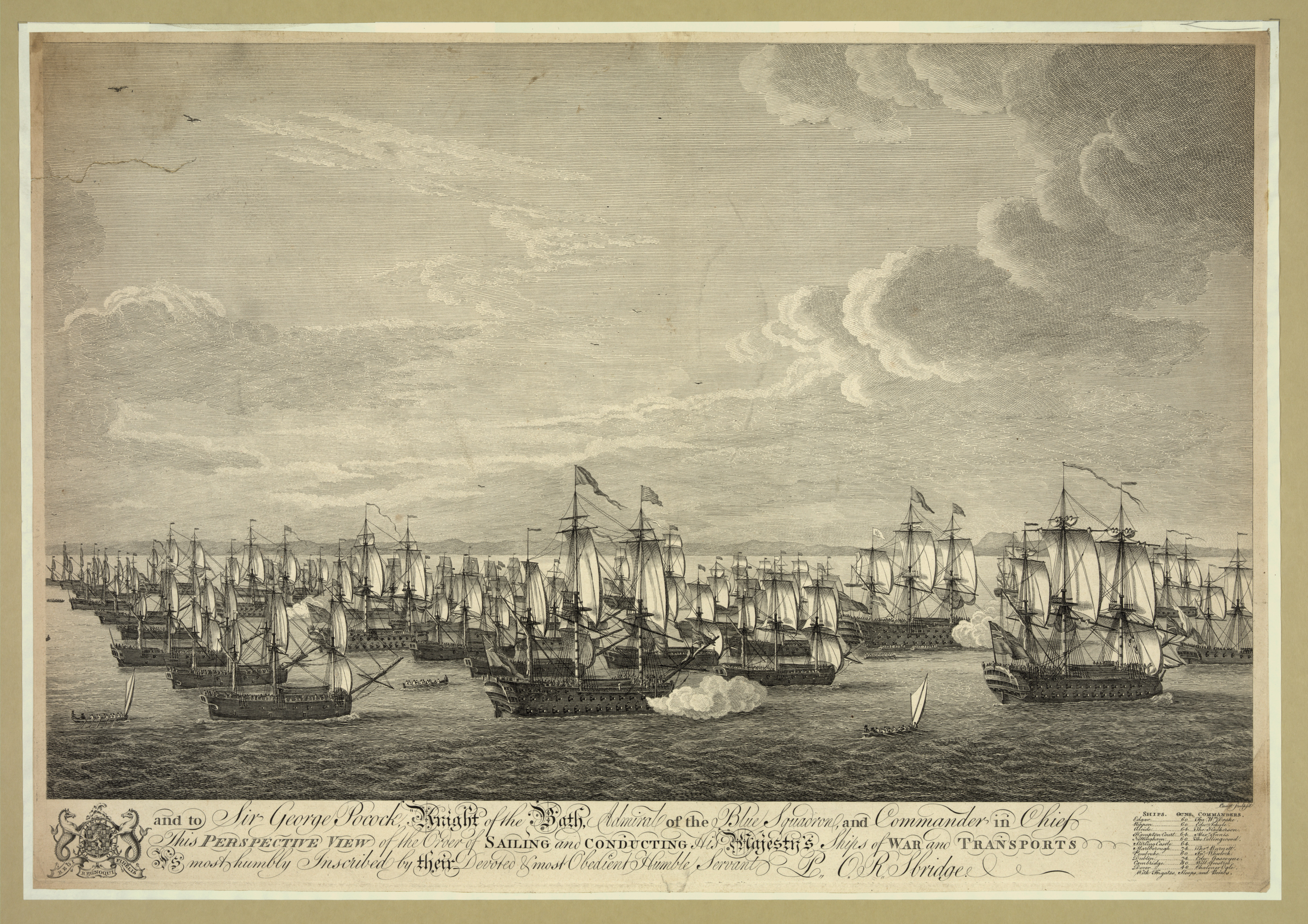 Title: and to Sir George Pocock, Knight of the Bath, Admiral of the Blue Squadron. This Perspective view of the order of sailing and conducting his Majesty's ships of war and transports... Dedication to Sir George Pocock, Admiral of the Blue Squadron, and Commander in Chief. Ships - Guns - Commanders HMS Edgar (ship, 1758) - 60 - Francis William Drake HMS Rippon (ship, 1758) - 60 - Edward Jekyle (Edward Jekyll) HMS Alcide (ship, 1755) - 64 - Thomas Hankerson HMS Hampton Court (ship, 1709) - 64 - Alexander Innis HMS Nottingham (ship, 1703) - 60 - Thomas Collingwood HMS Stirling Castle (ship, 1742) - 64 HMS Marlborough (ship, 1706) - 74 - Thomas Burnett HMS Pembroke (ship, 1757) - 60 - John Wheelock HMS Dublin (ship, 1757) - 74 - Edward Gascoyne HMS Cambridge (ship, 1755) - 80 - William Goostree HMS Dover (ship, 1740) - 40 - Chaloner Ogle with Frigates, Sloops, and Bombs Abstract/medium: 1 print.